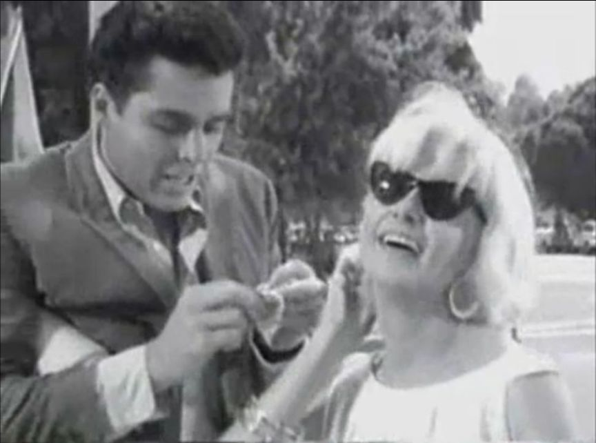 Screenshot of Richard Beymer and Joanne Woodward from the trailer for the film The Stripper